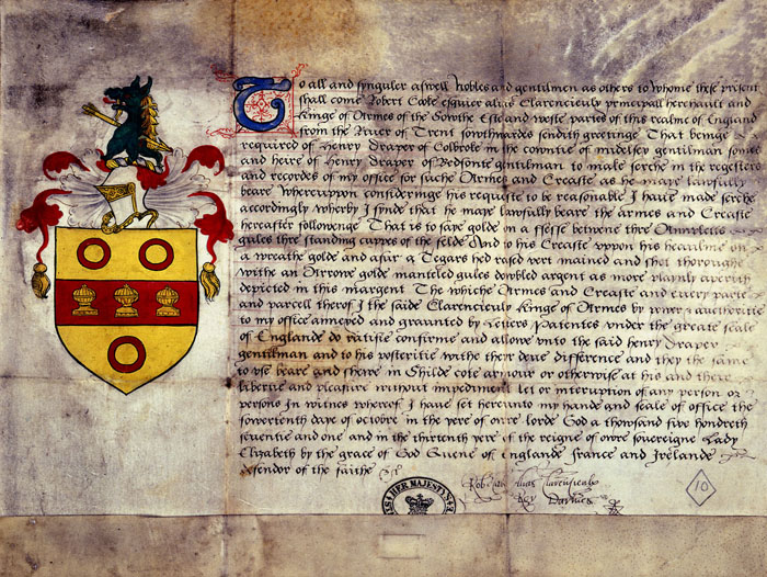 Signed grant from the Clarenceux King of Arms Robert Cooke to Henry Draper of Colnbrook giving him the right to use the heraldry shown (Golde, on a ffesse betwene thre Annulettes gules, thre standing cuppes of the felde)